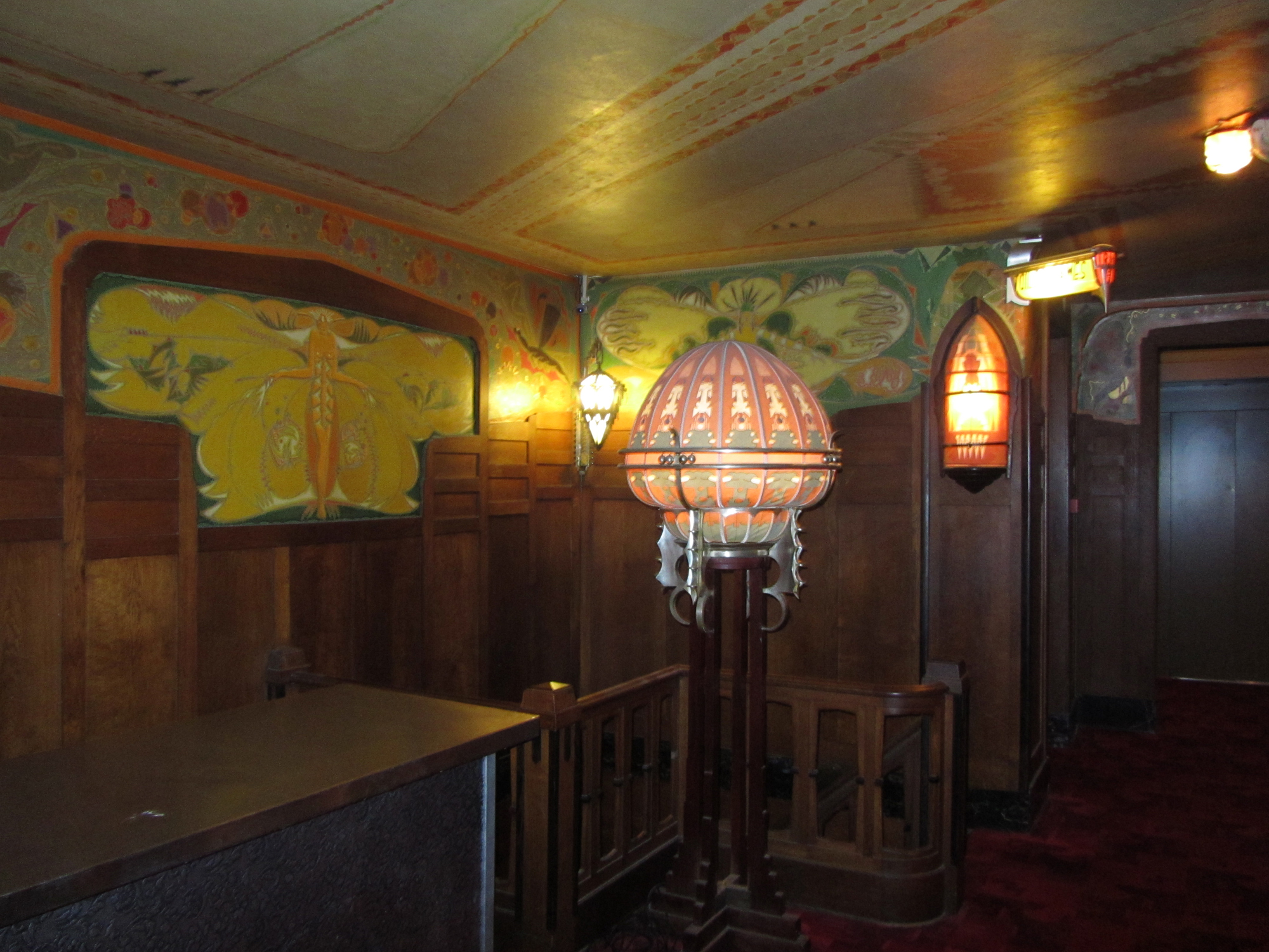 Foyer of the main auditorium in cinema theatre Tuschinski in Amsterdam.